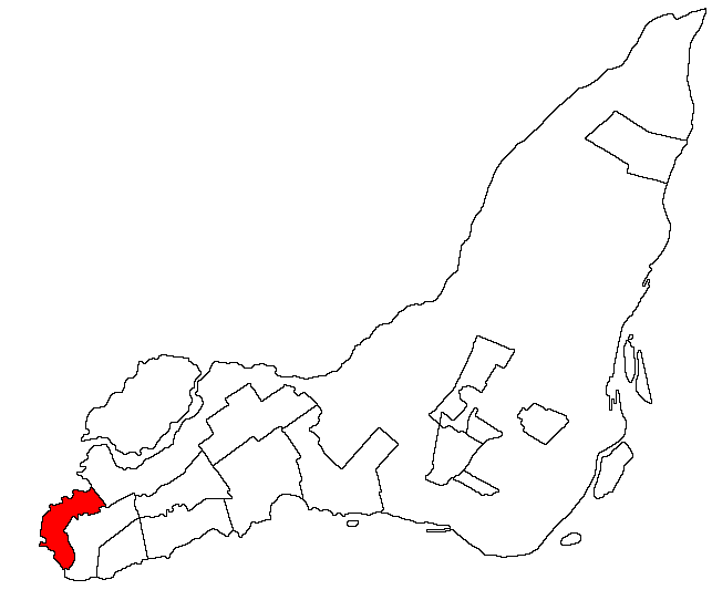 Map of Senneville on the Isle of Montreal